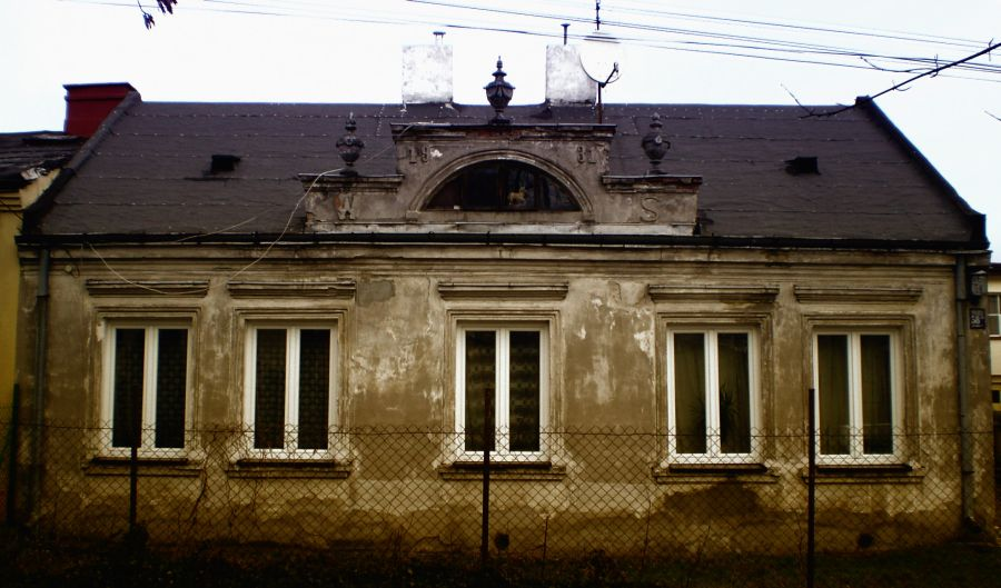 WARSAW DOM POD WAZAMI ZACISZE